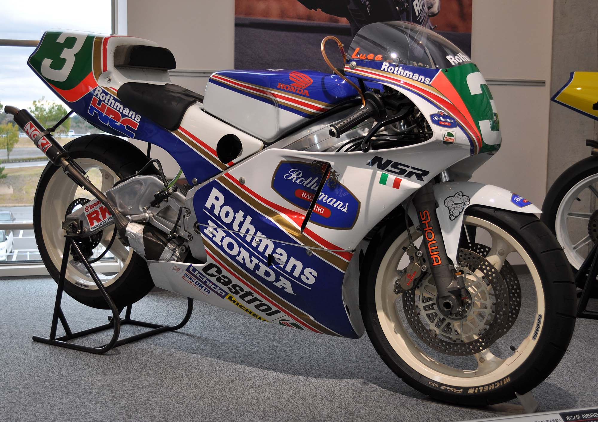 Honda NSR250 (Luca Cadalora, 1991)